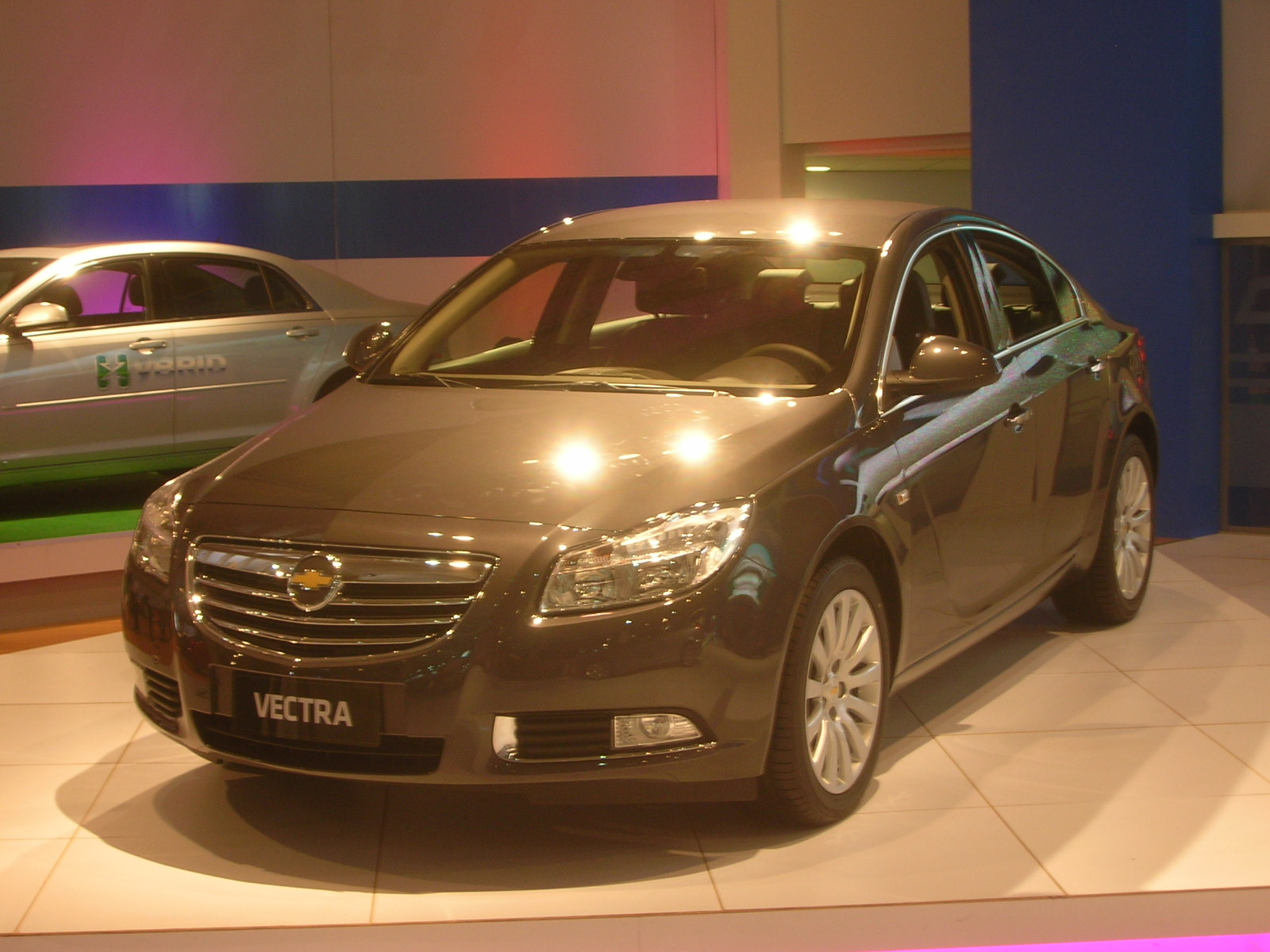 New Chevrolet Vectra (Opel Insignia) unveiled on the X Santiago Motorshow.